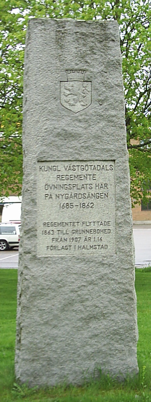 The regiment of Västergötland and Dalsland (Västgöta-Dals regemente) was 1685 - 1862 located on this place in Vänersborg, Sweden.